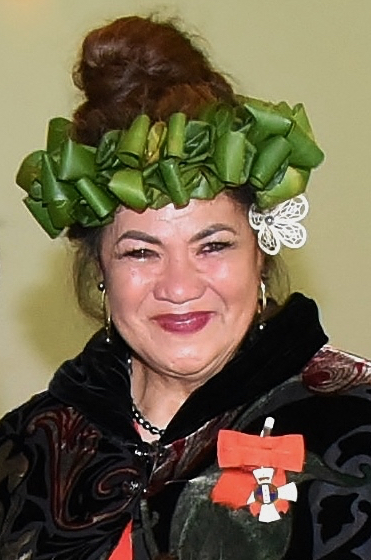 Mary Ama, after her investiture as CNZM, for services to the arts and the Pacific community, on 16 August 2017